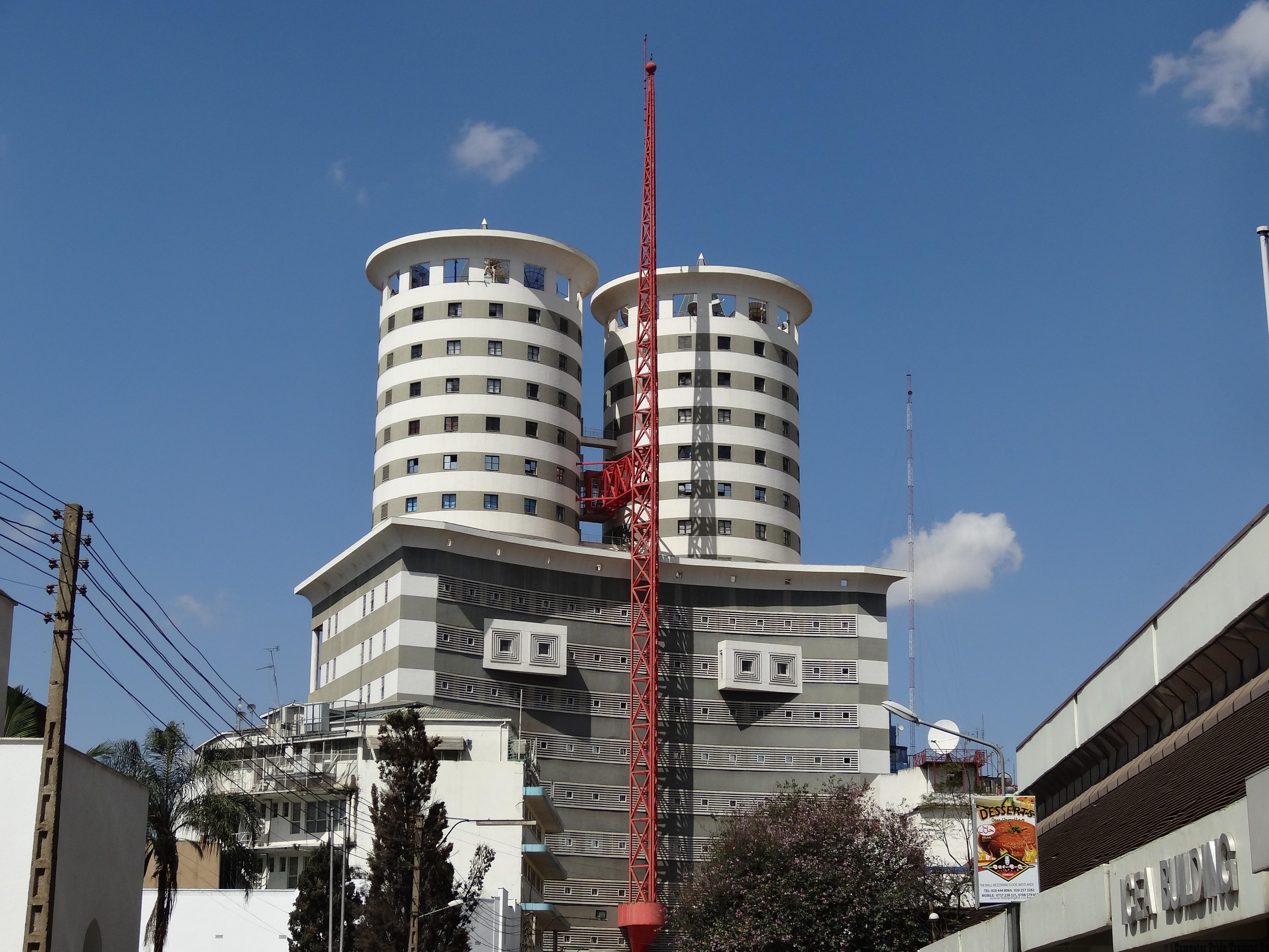 Nation centre, Nairobi Kenya. HQ of Nation Media Group. Architects: Henning Larsen Architects. Completed 1992.